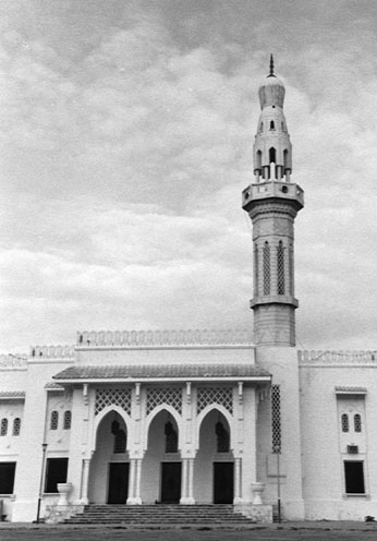 Entrance to the Mosque of Islamic Solidarity in Mogadishu, Somalia. The architecture of this mosque resembles to the Masjid an-Nabawi in Medina. The gate pictured here is constructed on the style of al-Quba Gate of Masjid Nabawi.[1]